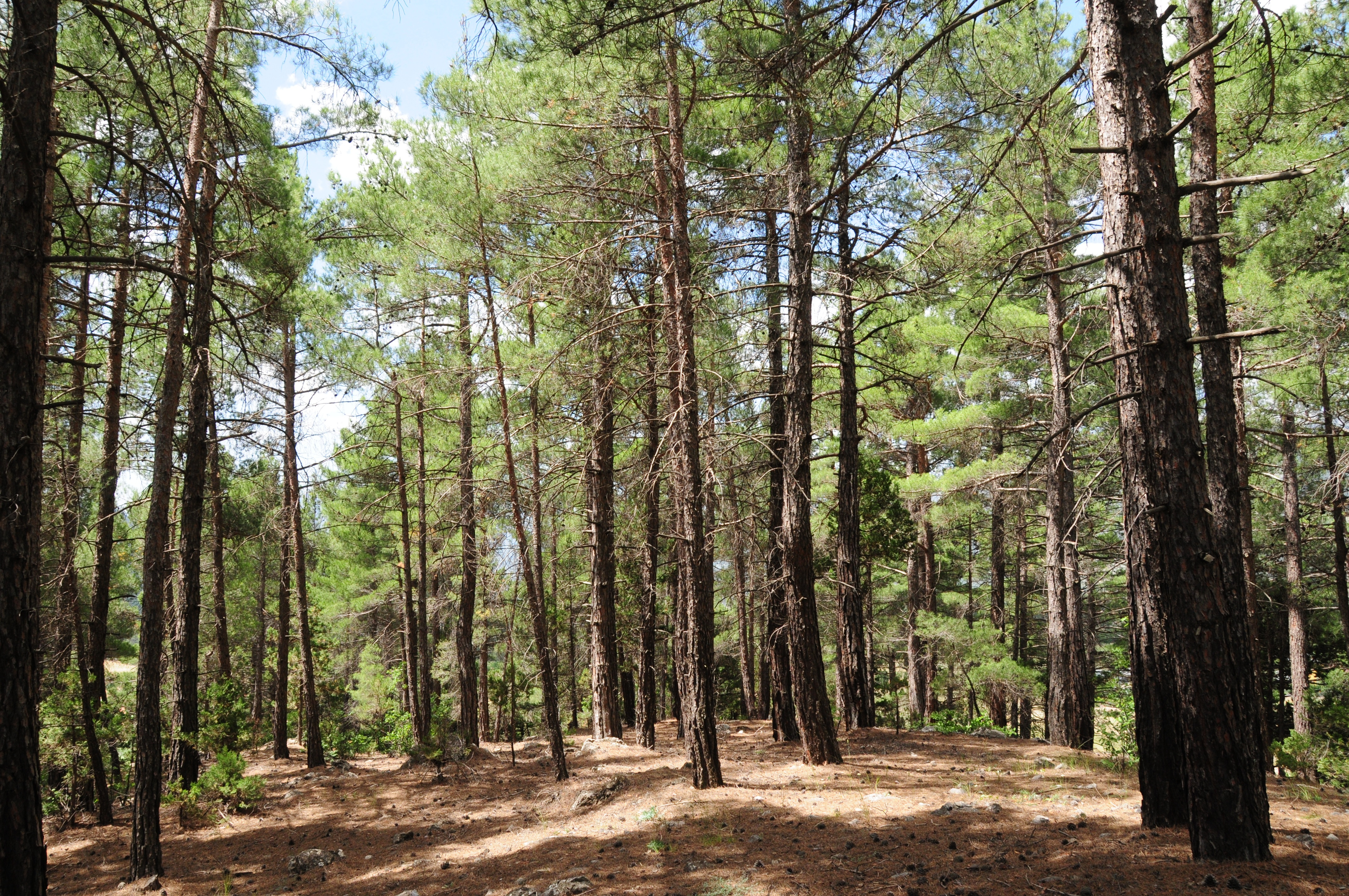 Forest of Pinus brutia at Findikli, near Pozantı, Adana Province, Turkey